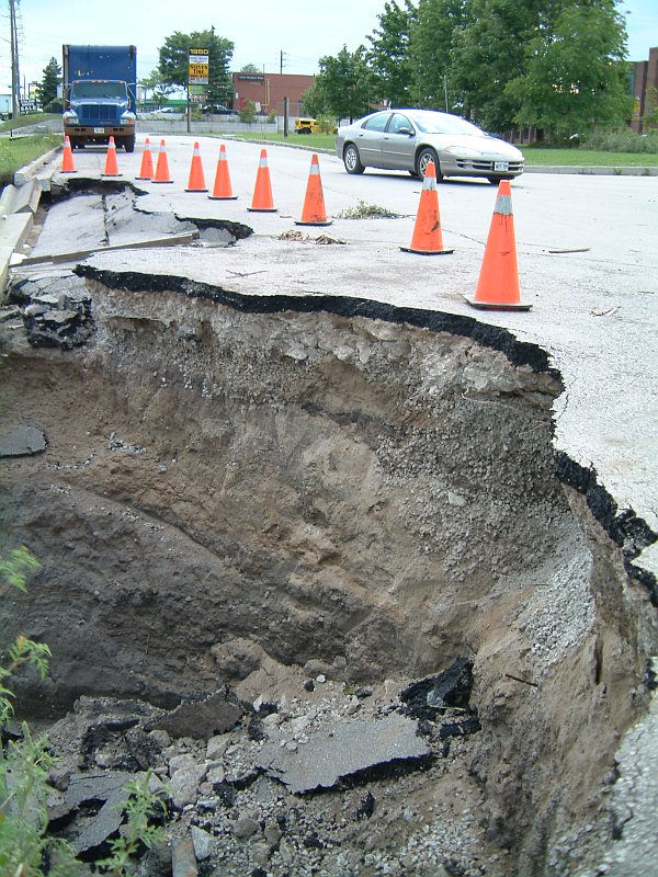 Damage to a parking lot near hwy 7 and Keele street in Concord, Ontario several days after a powerful thunderstorm created a flash flood which washed away much of the parking lots supporting structure leaving only the concrete curb and sewer in place. For more images and other details visit